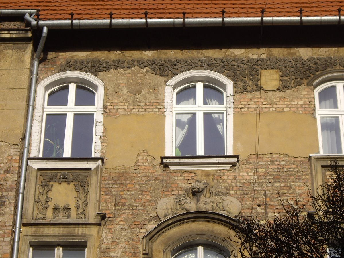 Derelict secession plasterwork, Jackowskiego 25, Poznan, arch. Paul Pitt, plasterer Boleslaw Richelieu (1902)